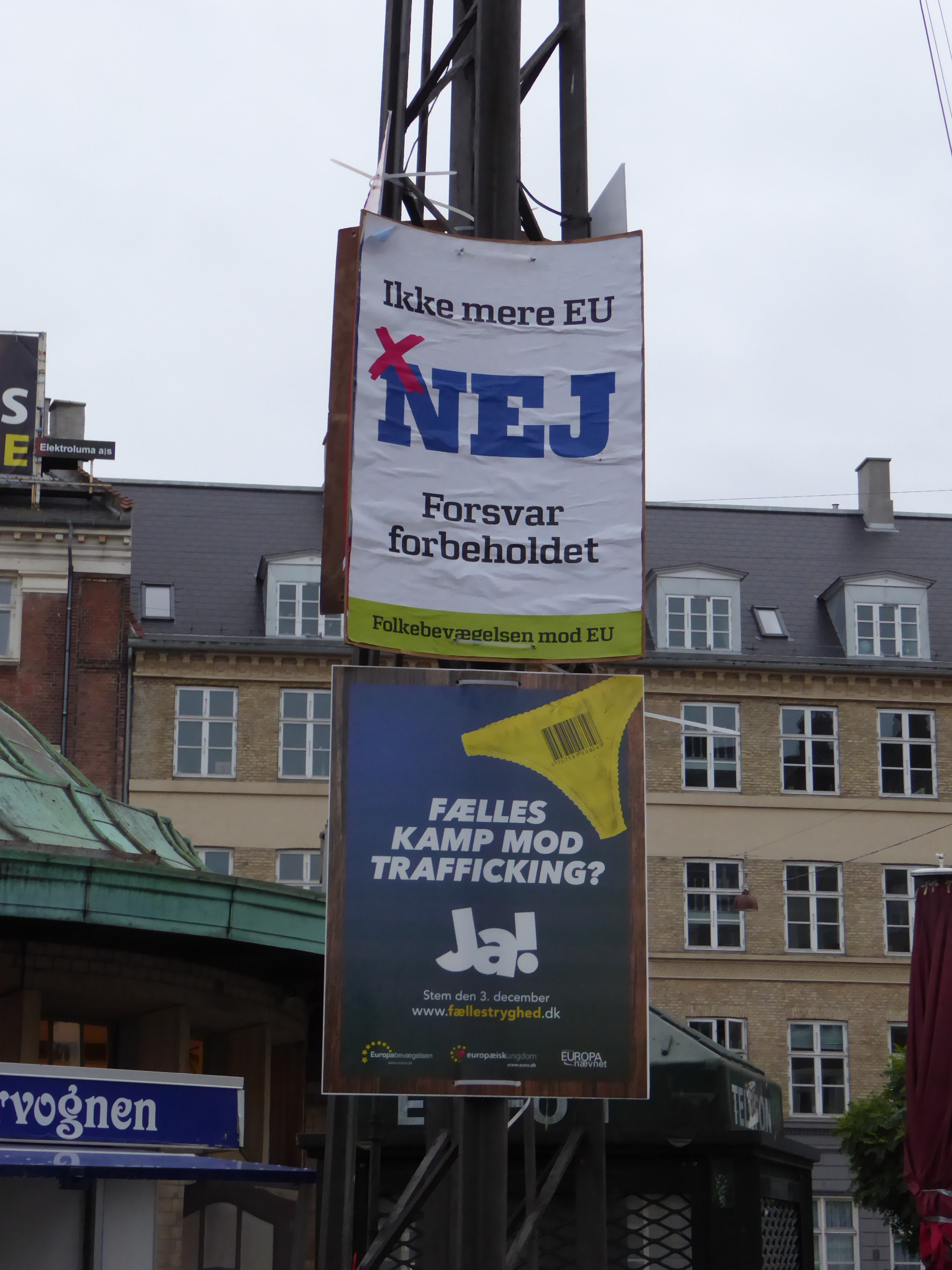 Election posters at Trianglen in Østerbro in Copenhagen before the election 3 december 2015 about the Danish legal exceptions.